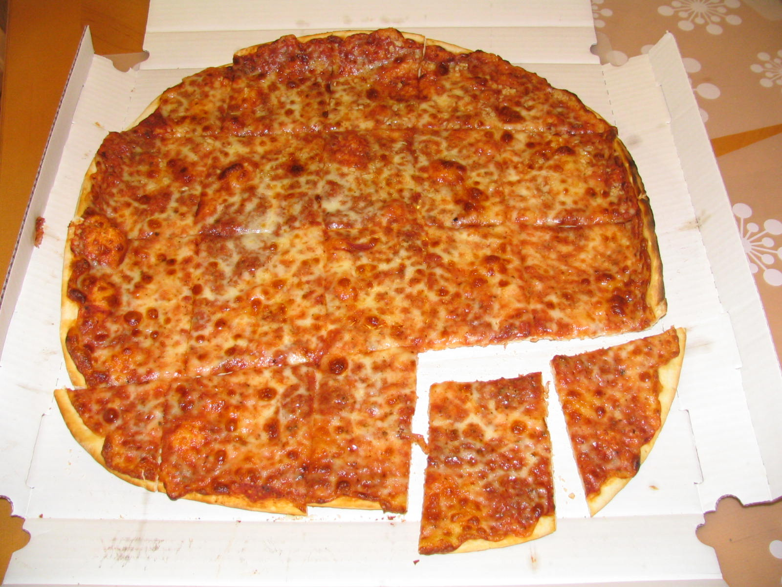 Photographed by shsilver on November 30, 2006 made Public Domain on December 3, 2006.